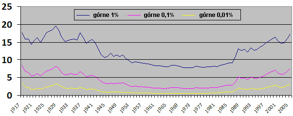 Share of pre-tax household income held by the top 1%, top 0.1% and top 0.01%